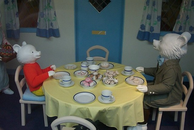 Canterbury Heritage Museum, formerly "Museum of Canterbury" with Rupert Bear Museum. The scene in the front window of the museum shows Rupert and his father having tea.